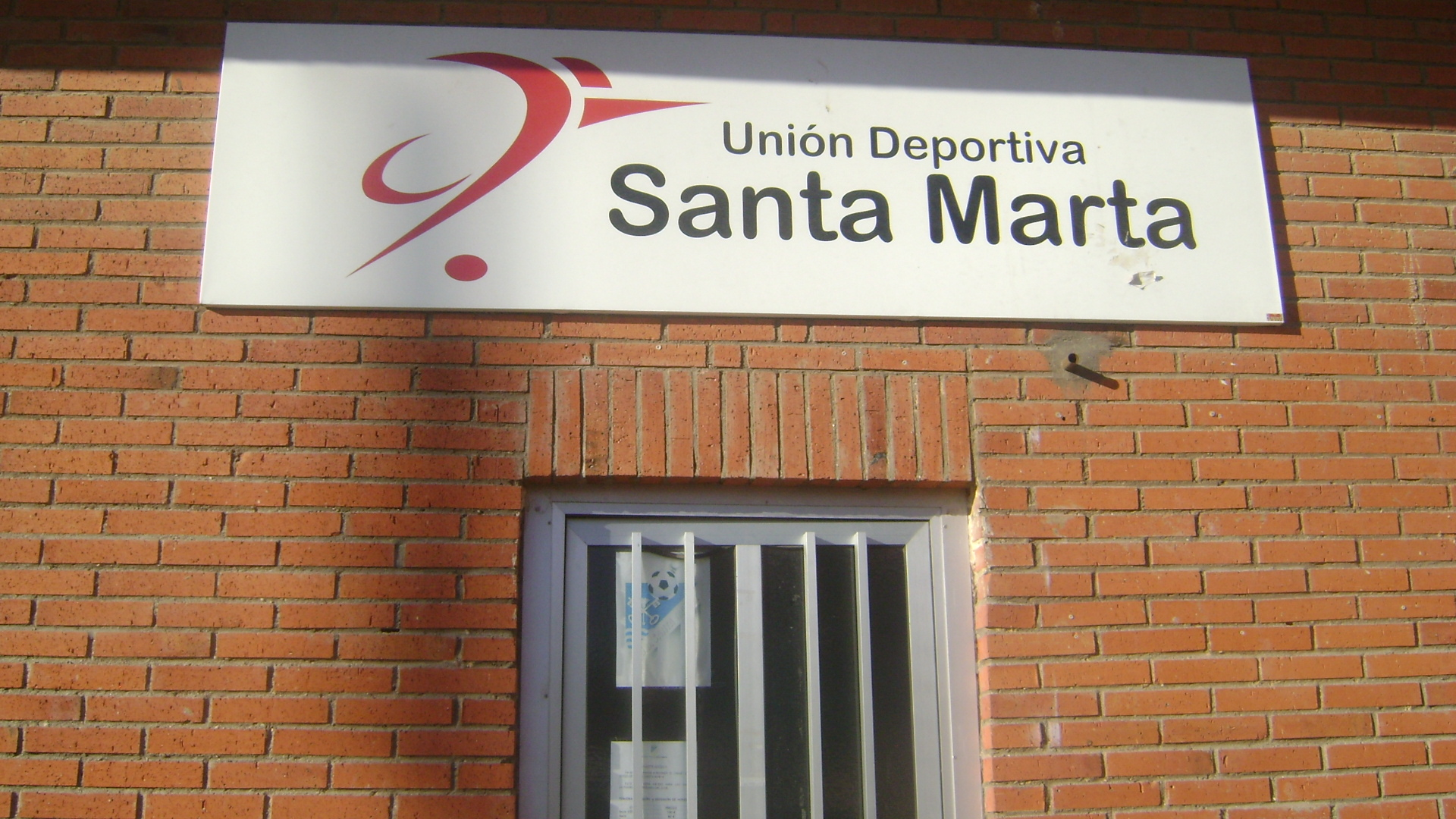 Sede de la UD Santa Marta